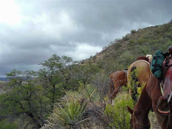 In the high country between Rancho Arizona and the Planches de Plata. Photo by Reba Grandrud